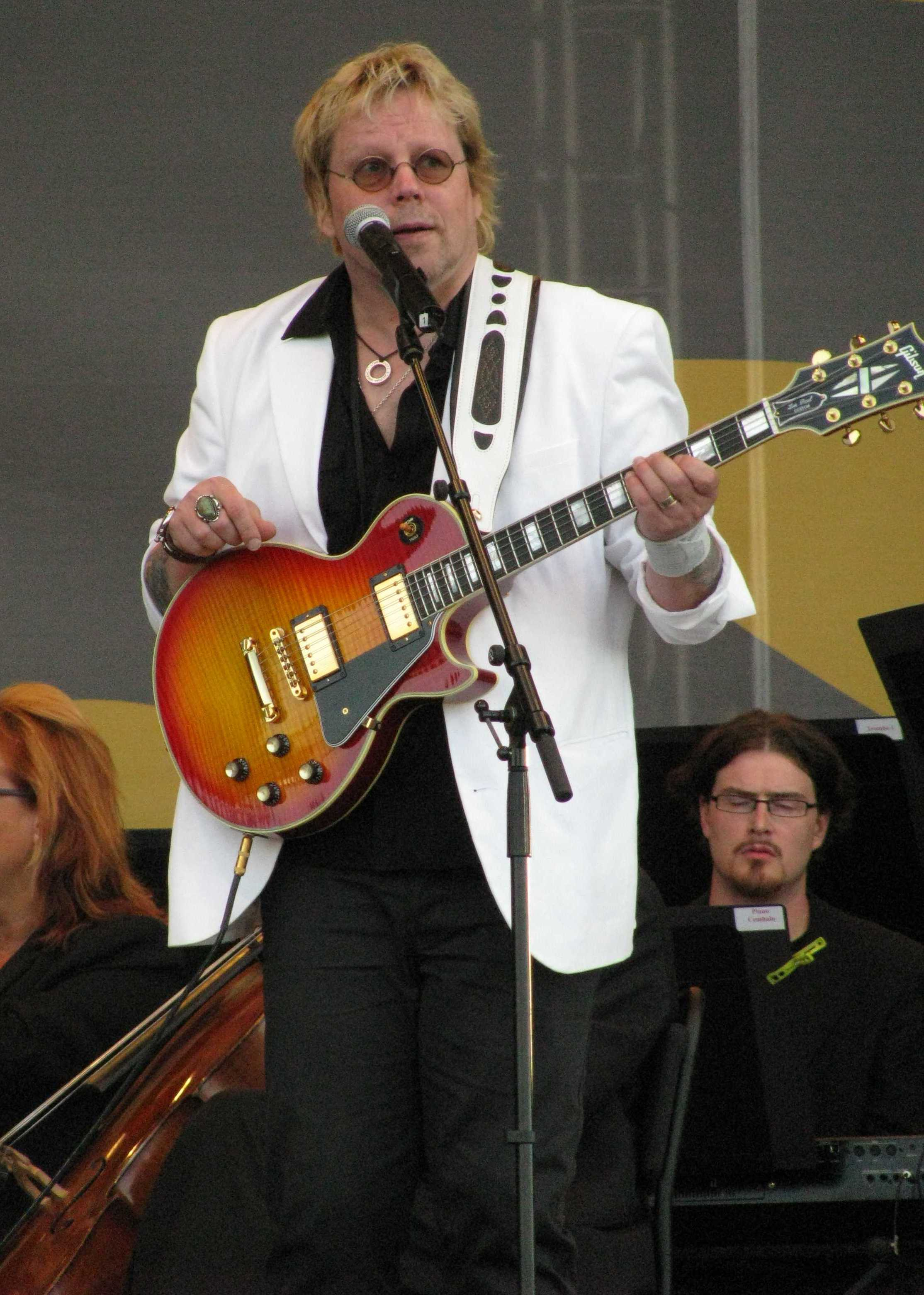 Neuman in Pori, 2008.